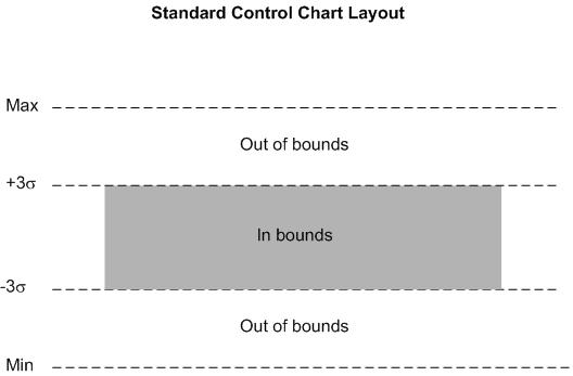 Control Chart showing in-bounds area